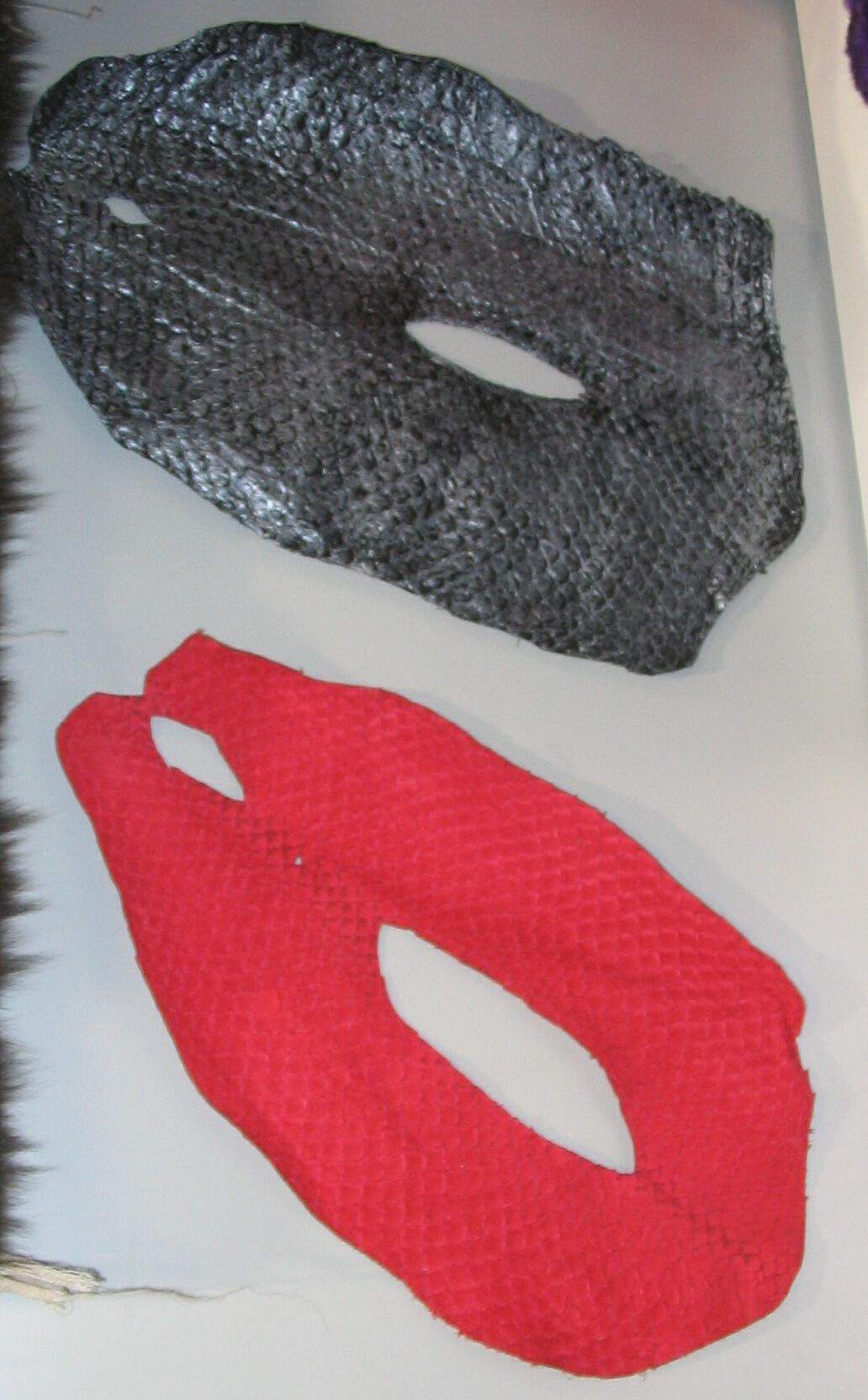 Tanned and dyed fish skins